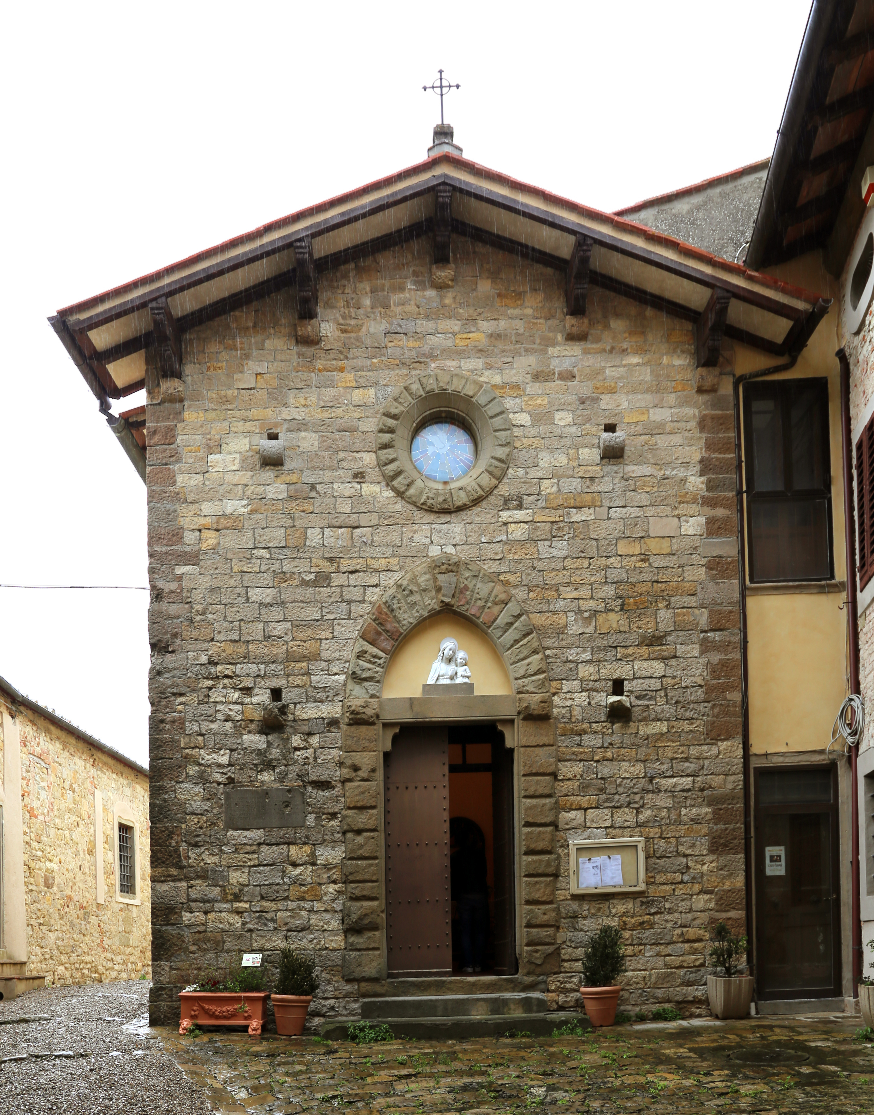 San Michele a Volognano